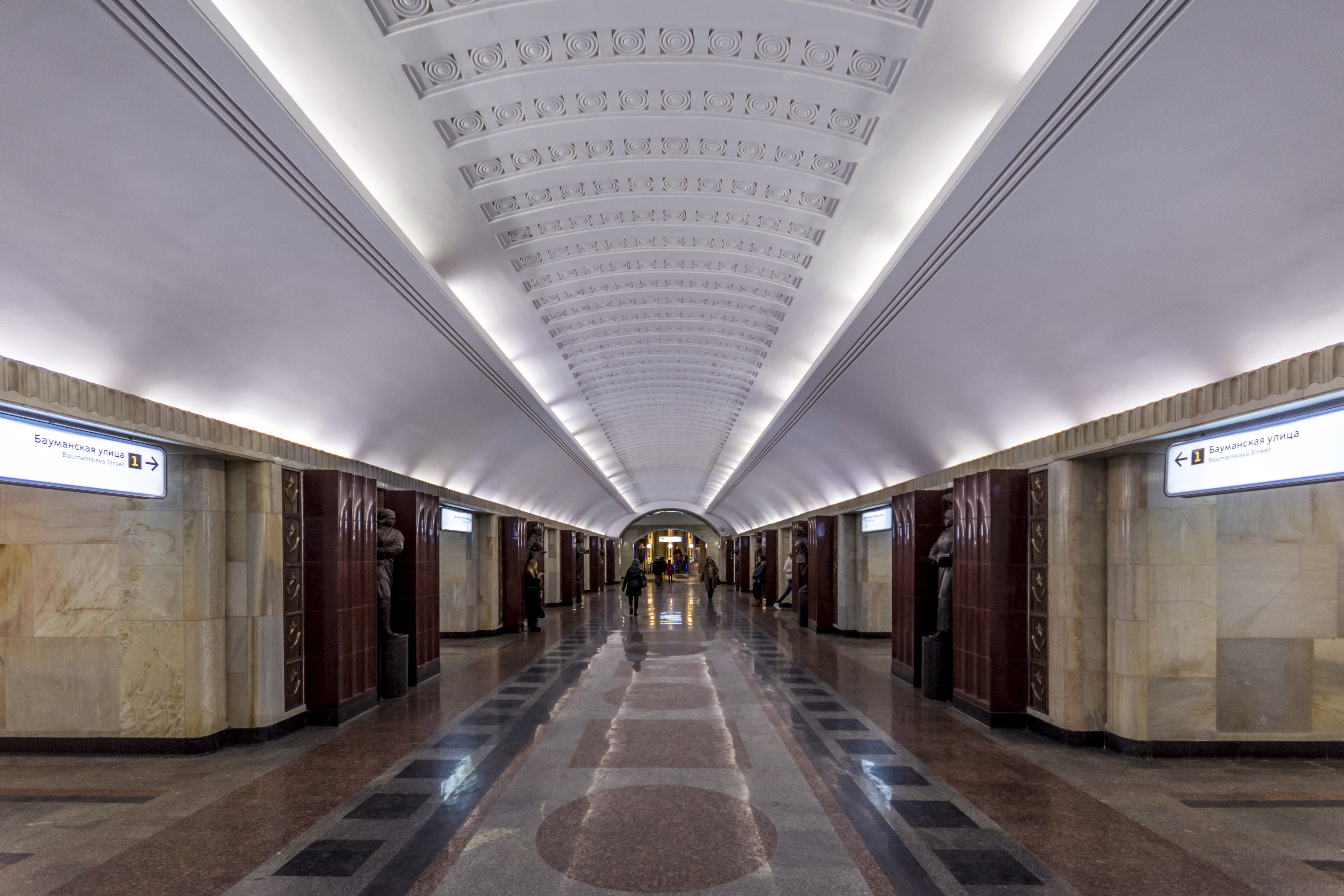 Baumanskaya Station of Moscow Subway